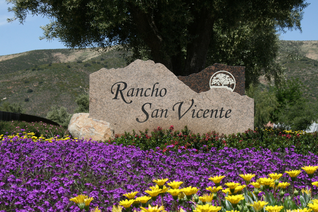 Rancho San Vicente sign in San Diego Country Estates, California